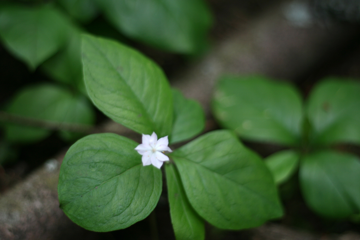 Trientalis latifolia, Horseshoe Bay, British Columbia